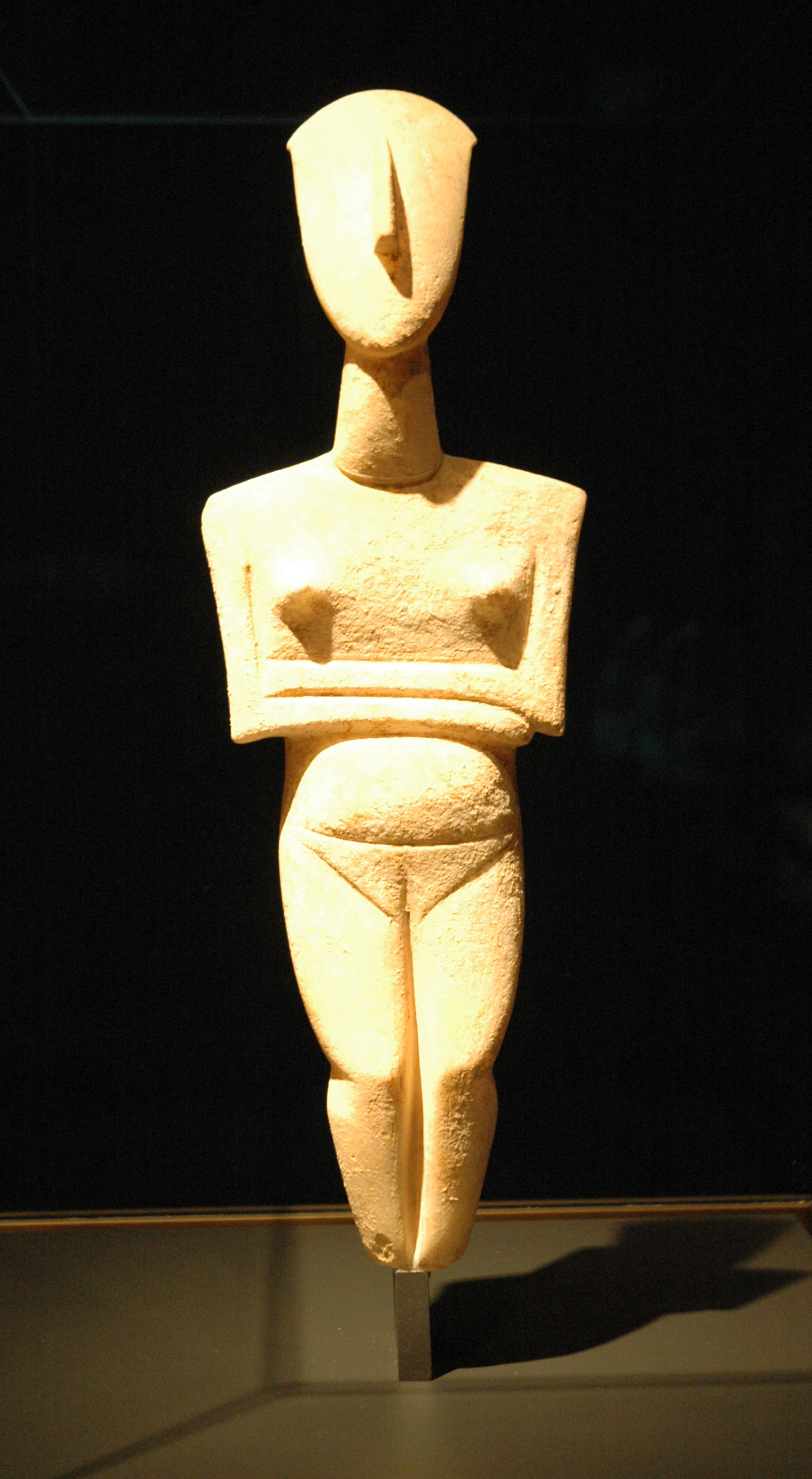 Pregnant cycladic idol.